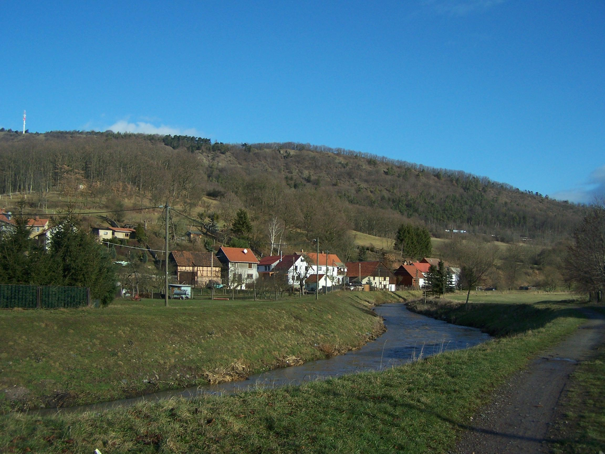 In Kälberfeld village.